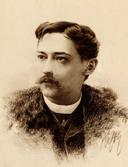 Reginald Hall Sayre (October 15, 1859 – May 29, 1929), son of Lewis Albert Sayre (1820–1900)